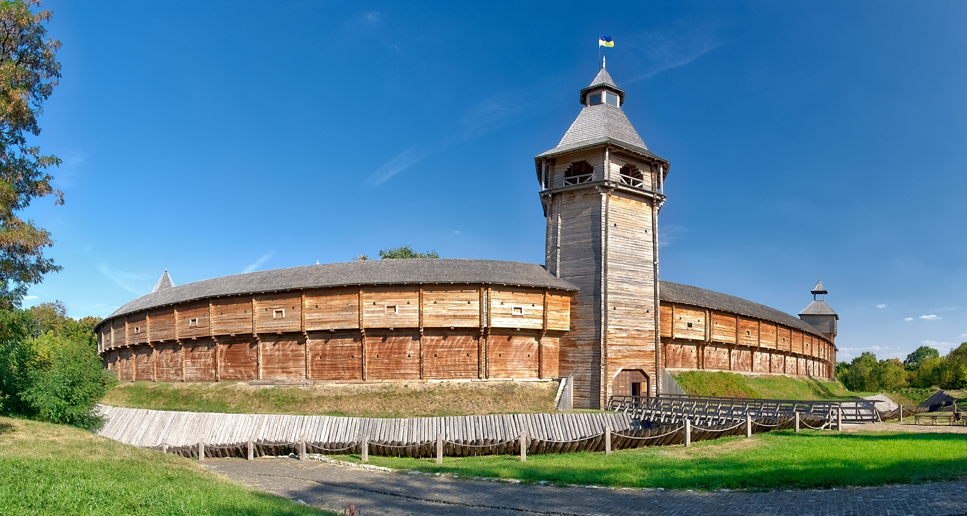 View of Citadel in Baturyn, Ukraine